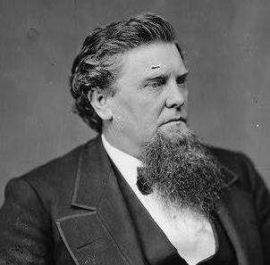 John H. Bagley, Member of Congress from New York